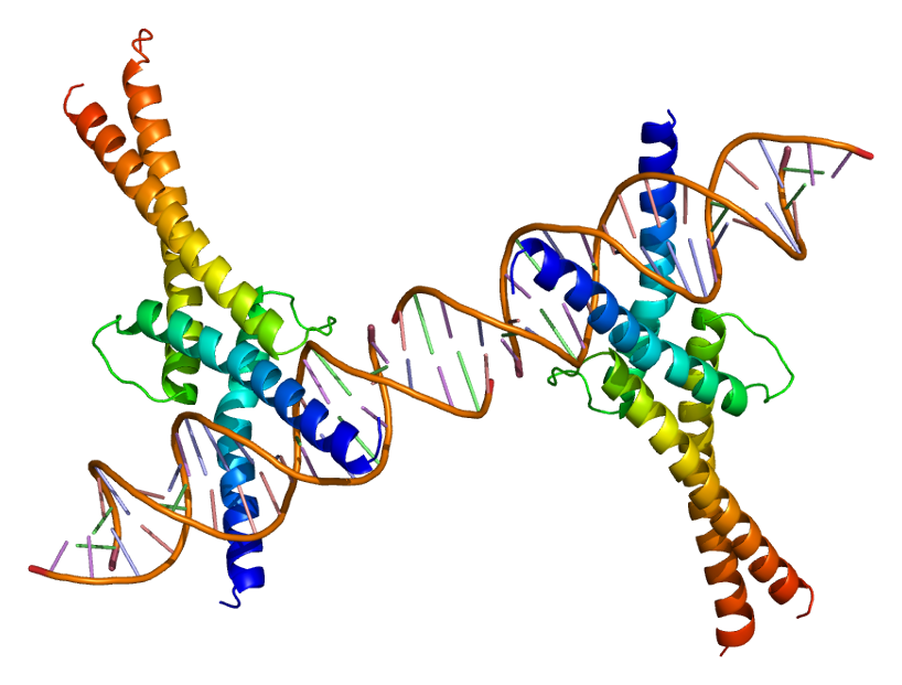 Structure of the SREBF1 protein. Based on PyMOL rendering of PDB 1am9.